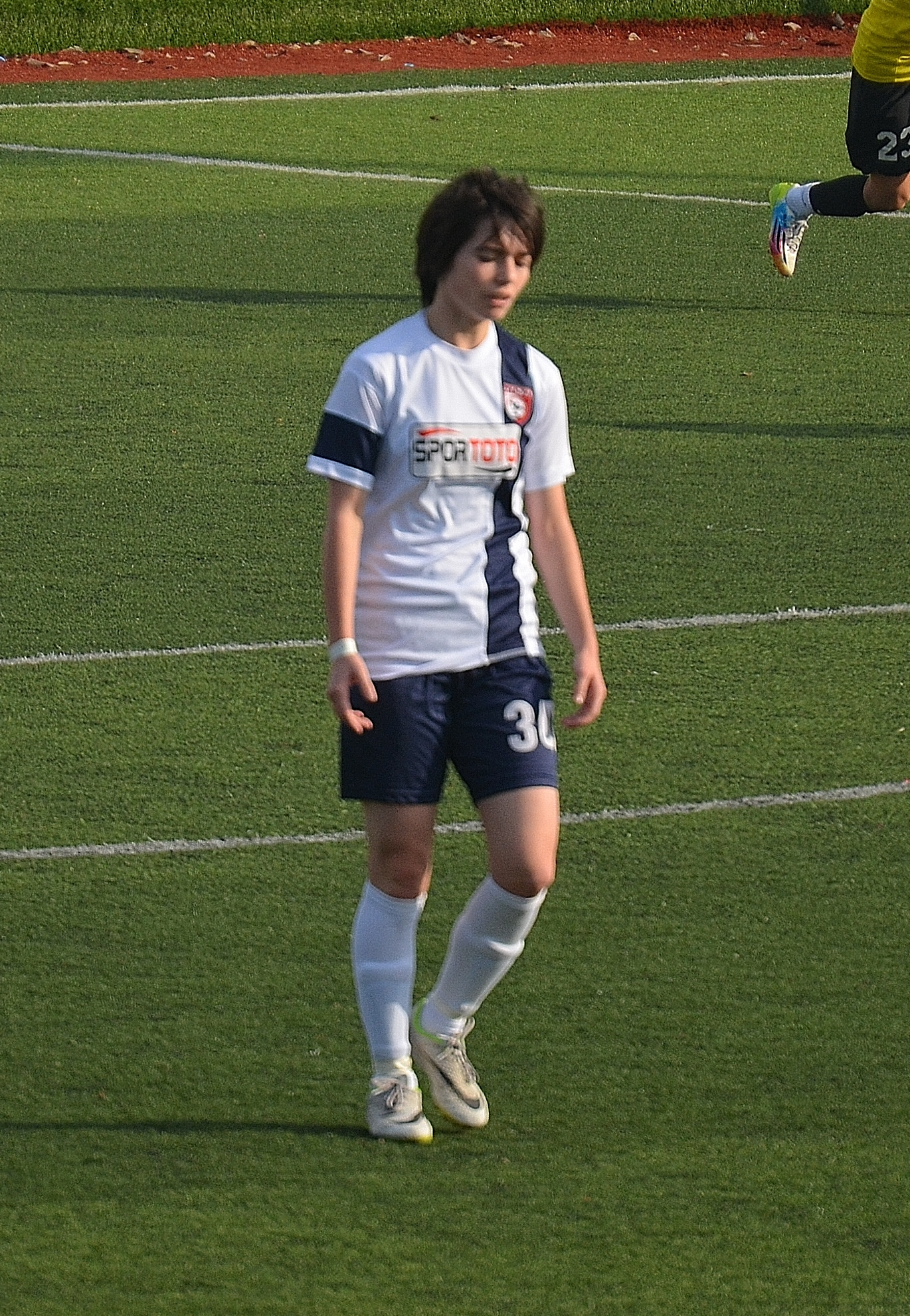 Fatma Serdar for İlkadım Belediyespor in the away match vs Ataşehir Belediyespor (2014-15 season)